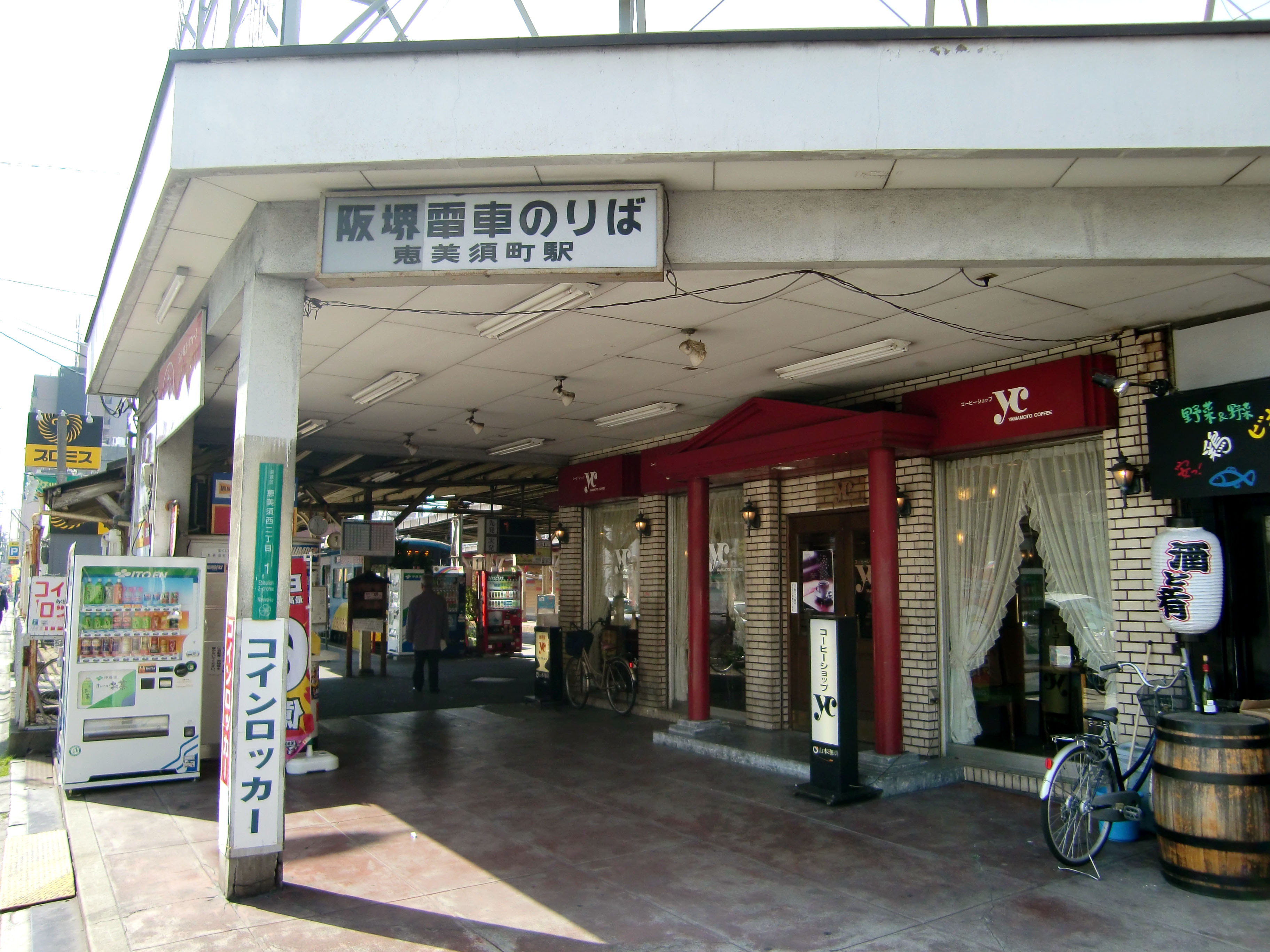 Hankai Ebisucho Station,1-chome Ebisunishi Naniwa-ku Osaka-City Osaka Japan.